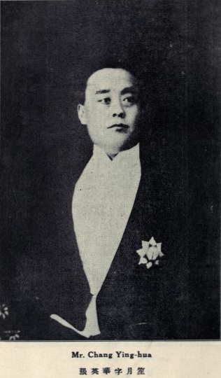 Zhang Yinghua, Yuesheng (born 1886)